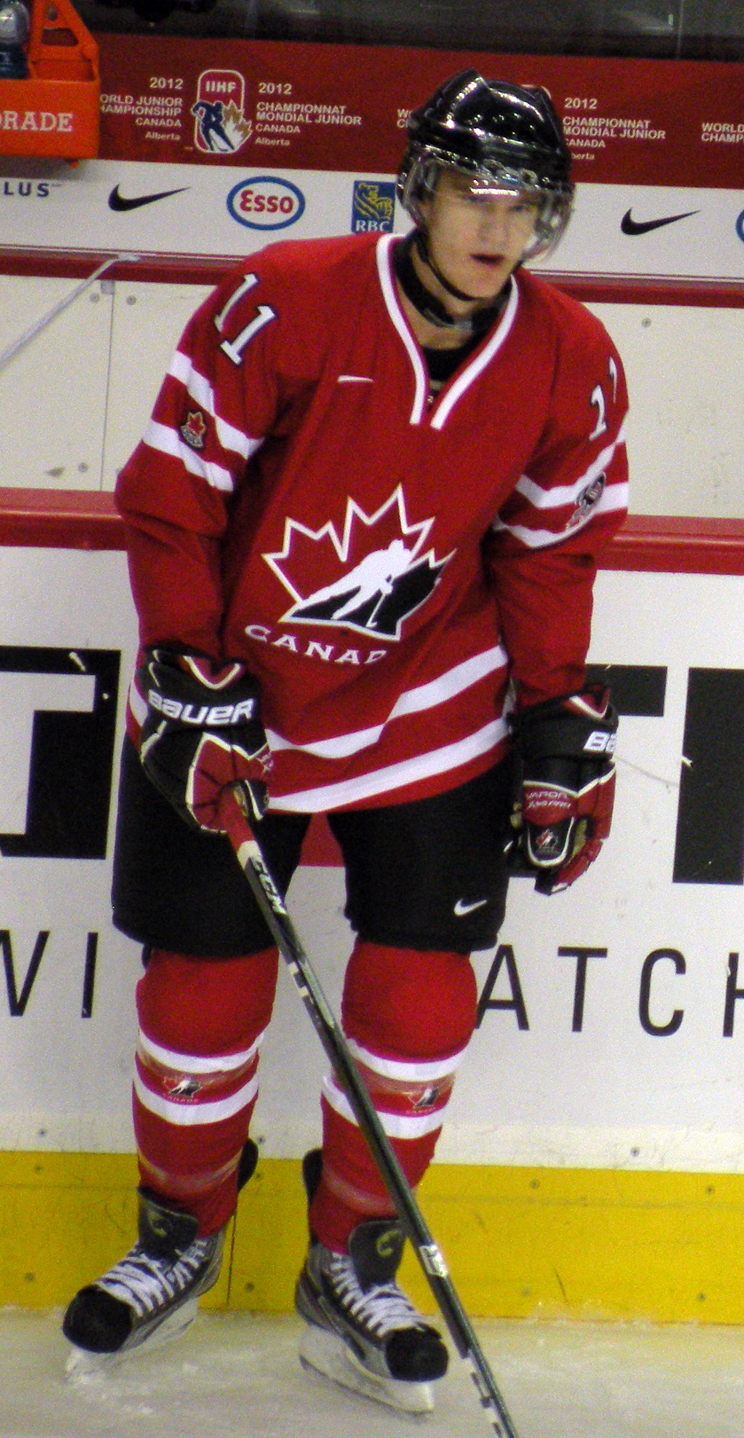 Canadian forward Jonathan Huberdeau prior to a semi-final game against Team Russia at the 2012 World Junior Hockey Championships at Calgary, Alberta, Canada.